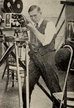 American cinematographer Roland Totheroh, on page 50 of the September 14, 1918 Exhibitors Herald. Note the hat and cane on the chair; he was noted as the regular cameraman on the films of Charlie Chaplin from 1915 on.